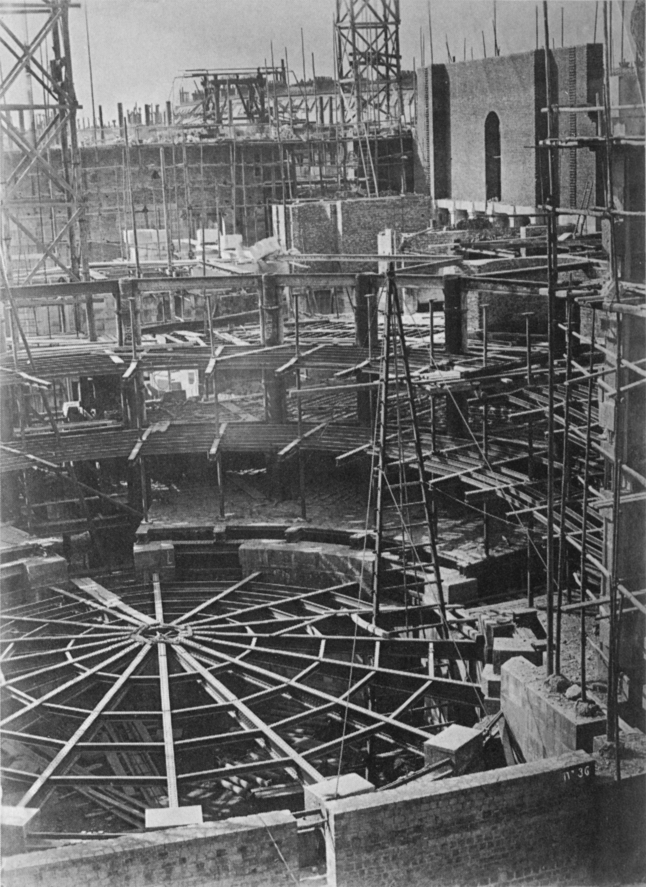 Photograph of the auditorium during construction of the Palais Garnier of the Paris Opera. The iron floor trusses form the vault of the future "Rotonde des Abonnés". The ironwork of the walls is being put in place, and the first two levels of trusses for the boxes have been added.